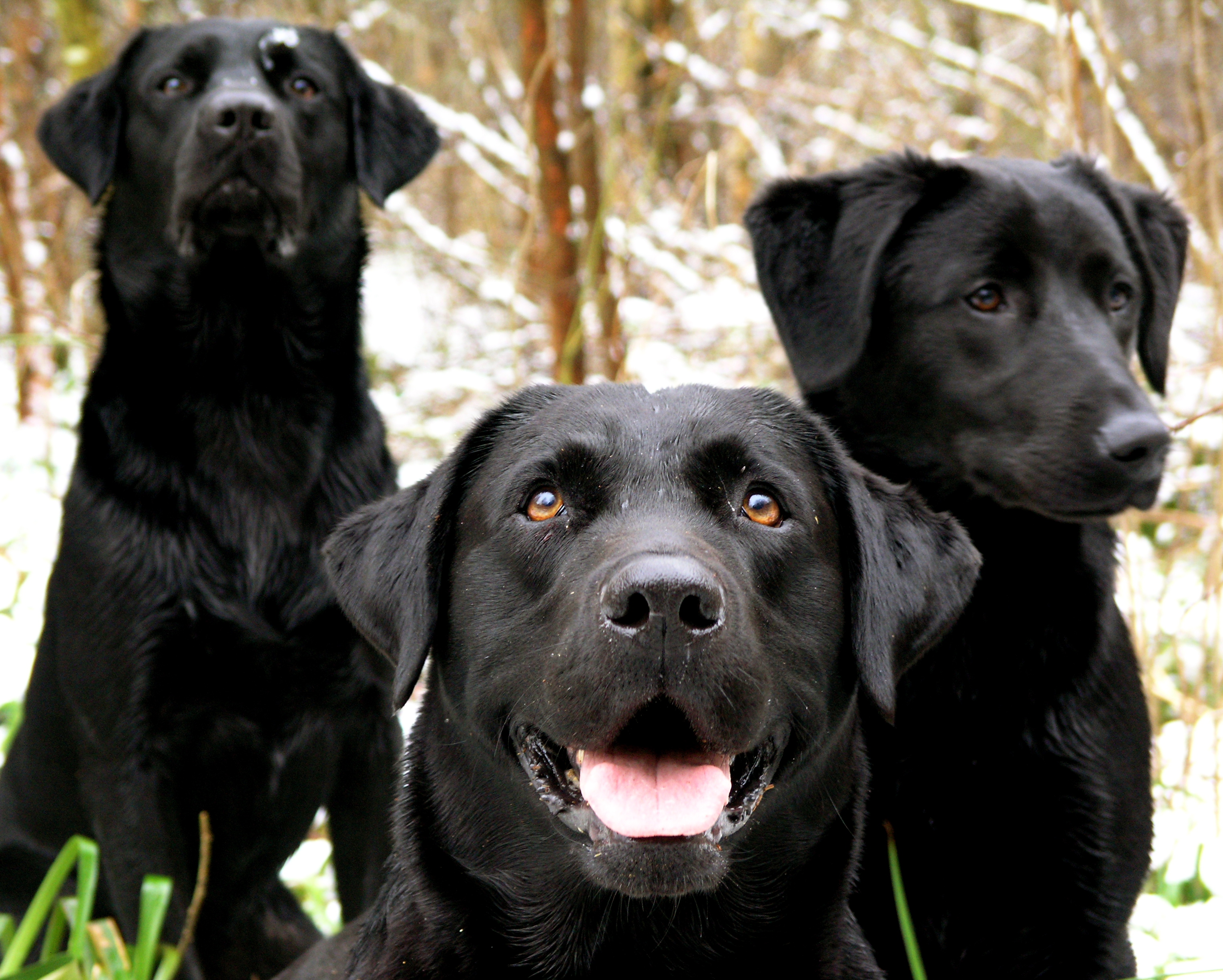 Three black Labrador Retrievers.